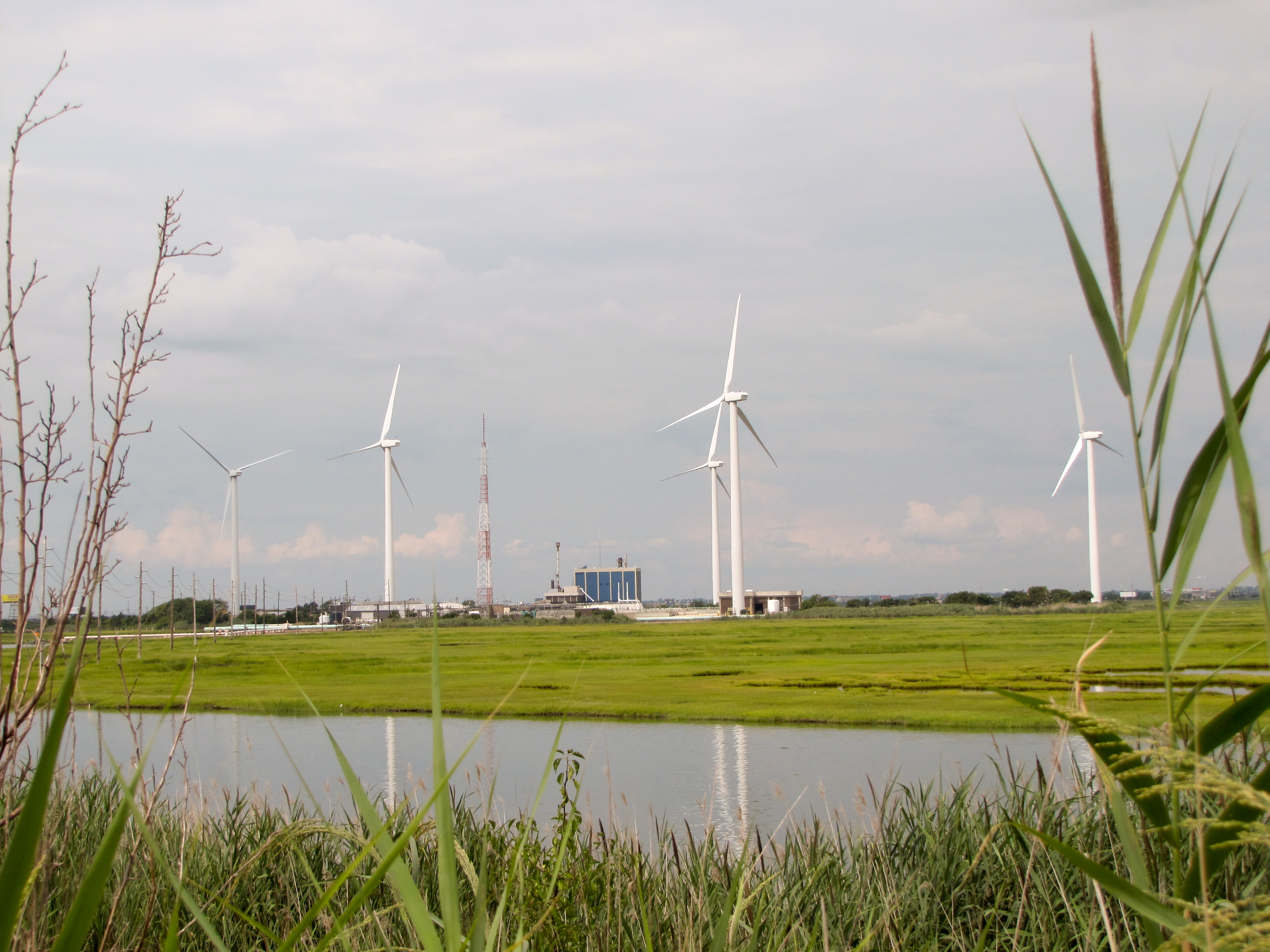 Altantic-Jersey Wind Farm (Atlantic City) is the first coastal turbine farm in the USA